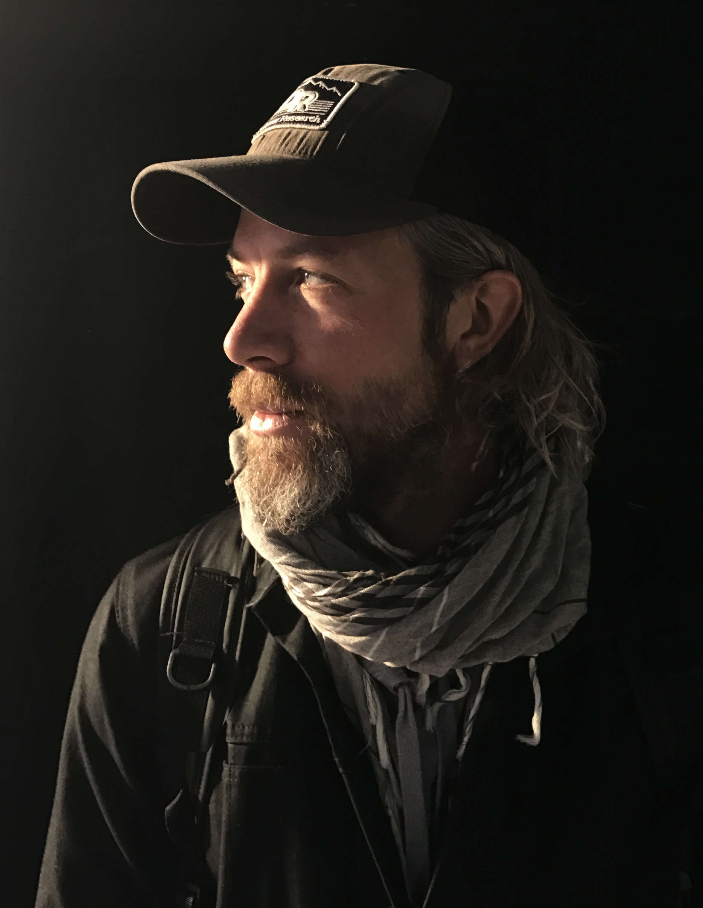 Sam Washington, Director